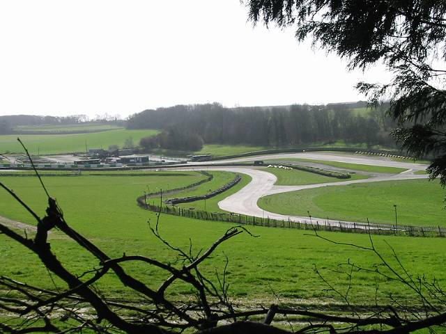 View of Chessons Drift on Lydden circuit race track